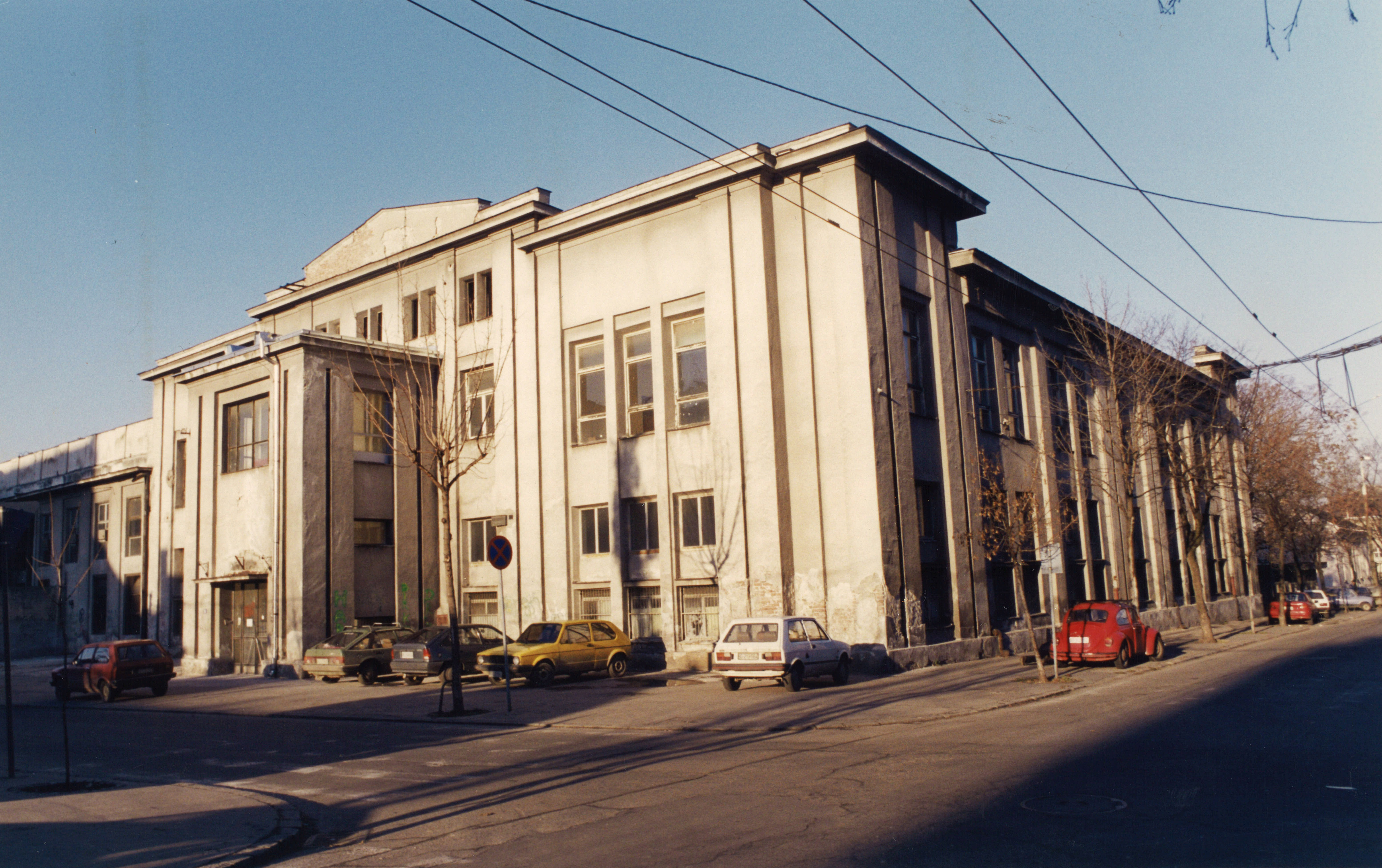 The building of old thermal power plant from 1999. Now, in this building in located Museum of Science and Technology Belgrade.